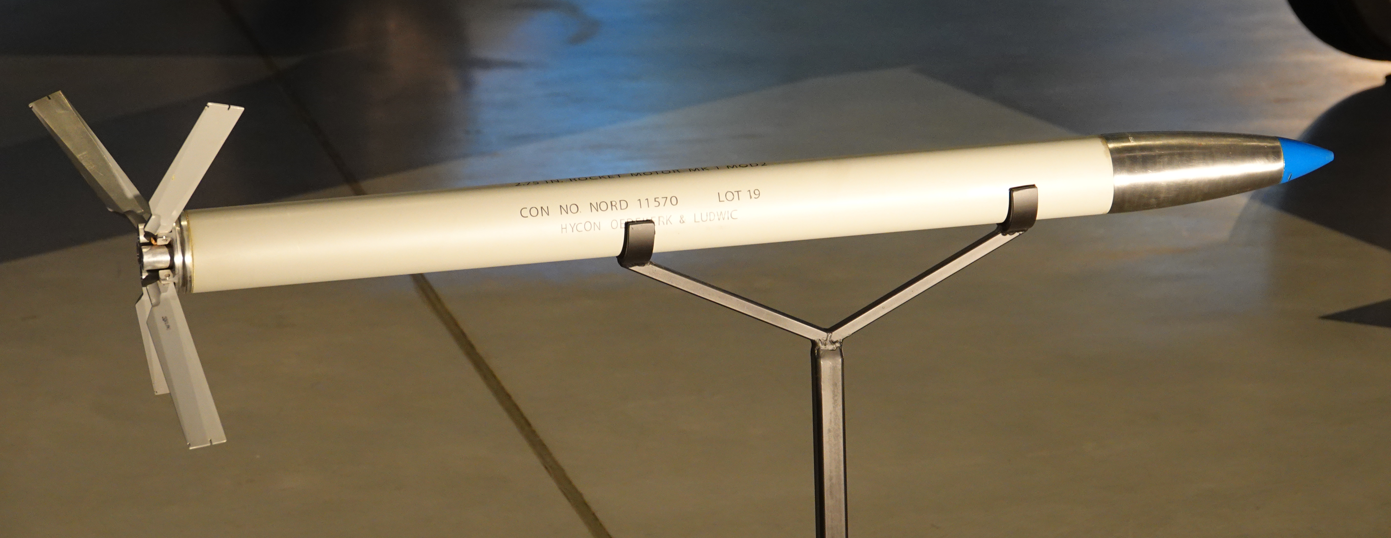 The Mighty Mouse unguided air-to-air missile was usually ﬁred in salvoes from U. S. Navy and Air Force jet ﬁghters. The ﬁns unfolded When the rocket-left its ﬁring tubeor pod. A single hit by one of these small missiles could destroy an enemy bomber. The Navy Bureau of Ordnance began developing the missile in 1948. Used in the Korean and Vietnam wars, it became standard on many US. Navy and Air Force aircraft. Among the airplanes that carried them were the North American F 86D Sabre, Chance-Vought F 7U-3 Cutlass,Northrop F 89D Scorpion, and Lockheed F -104C Starfighter. Helicopters that carried them included the UH-l Iroquois, AH-1G HueyCobra Bell AH lJ SeaCobra, Lockheed AH-56A Cheyenne, and Sikorsky S-67 Blackhawk. Picture taken at the National Air and Space Museum's Steven F. Udvar-Hazy Center in Chantilly, Virginia, USA. - Transferred from the U. S. Navy, Naval Supply Depot, Mechanicsburg, Pa. Specifications: Length: 1.1 m (3 ft 6 in) Weight, loaded: 8.3 kg (19 lb) Weight, warhead: 1.6 kg (4 lb) Thrust: 3,560-4000 N (800-900 lb) Propellant: solid fuel (nitroglycerine-nitrocellulose) Manufacturer: unknown